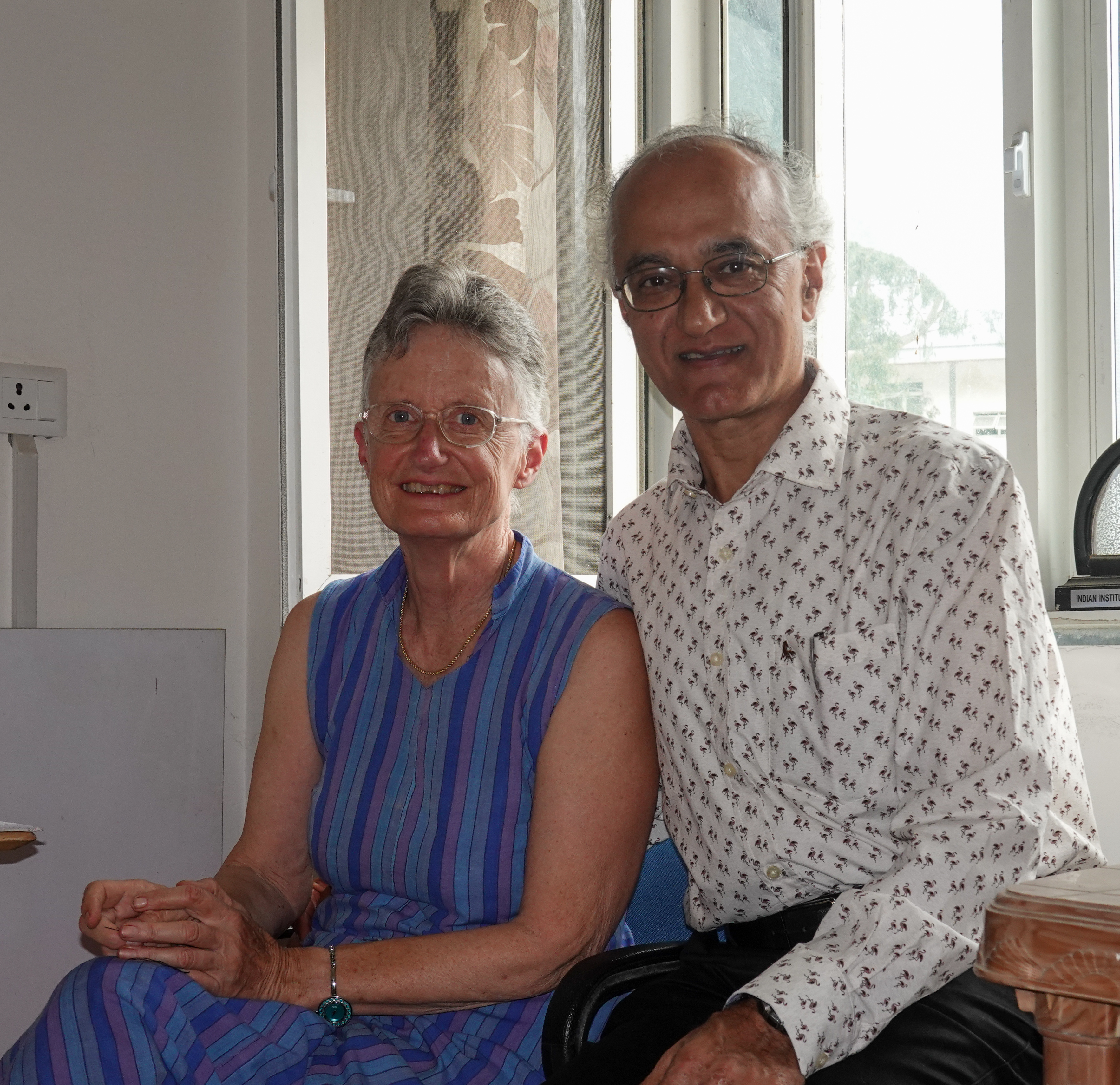 Priscilla and Timothy Gonsalves, Director's Residence, C36-S1, IIT Mandi, August 2019. Taken with a Sony RX100m6 on a tripod with self-timer.